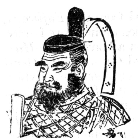 Maeda Toshiie